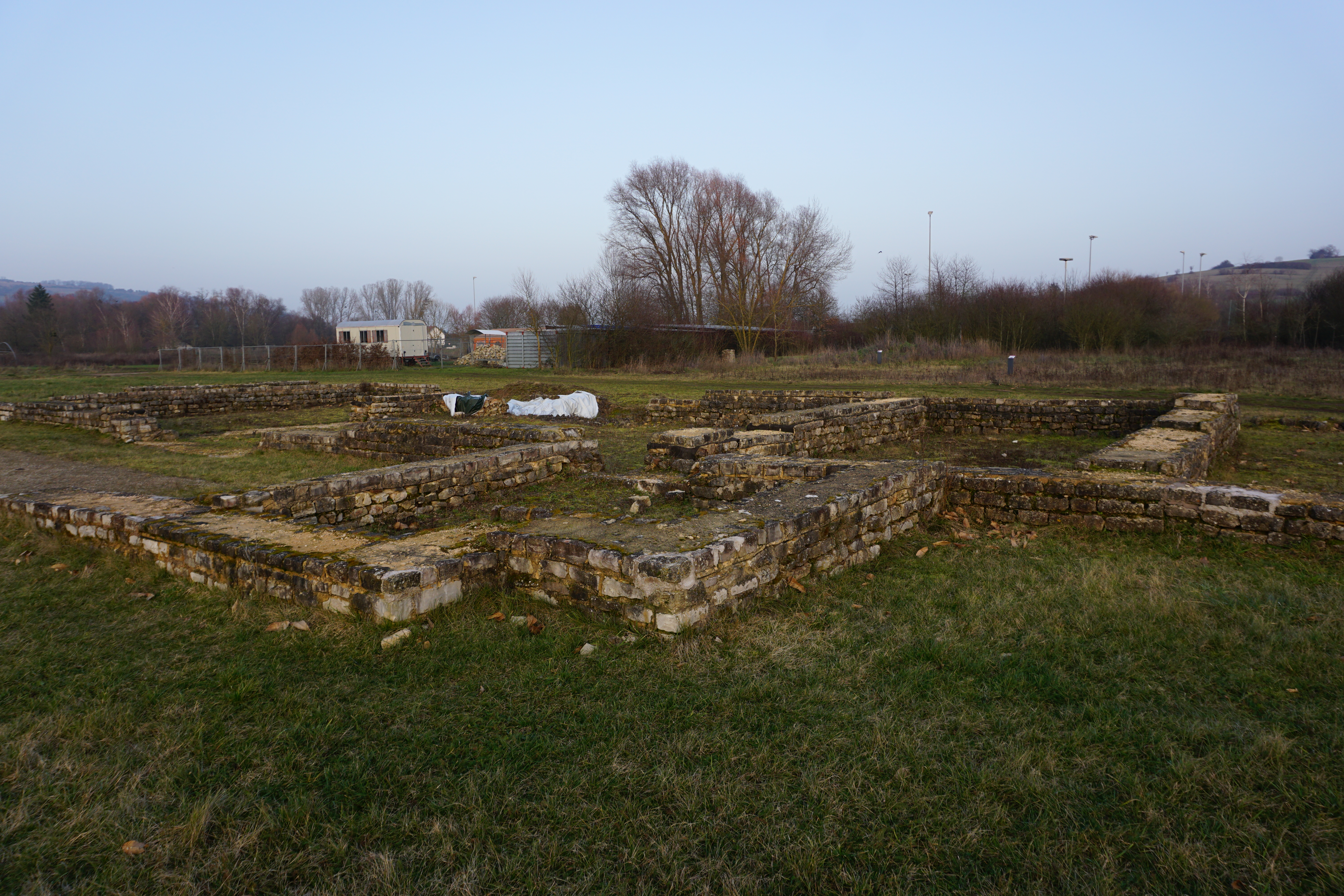 Outbuilding 8 of the Roman villa of Reinheim, which probably served as the residence of the administrator of the complex.